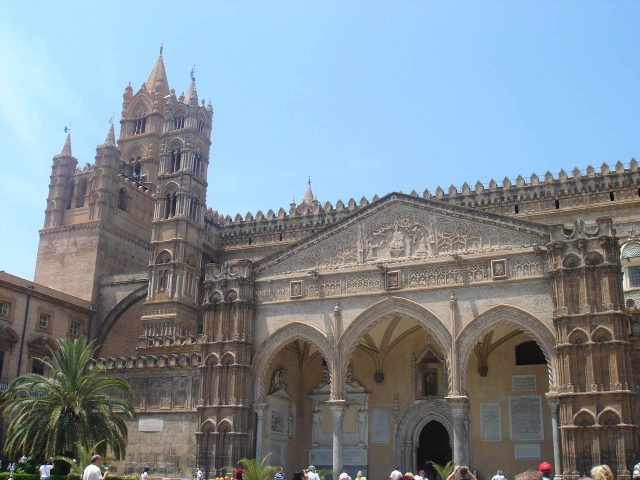 Southern portico of Palermo Cathedral